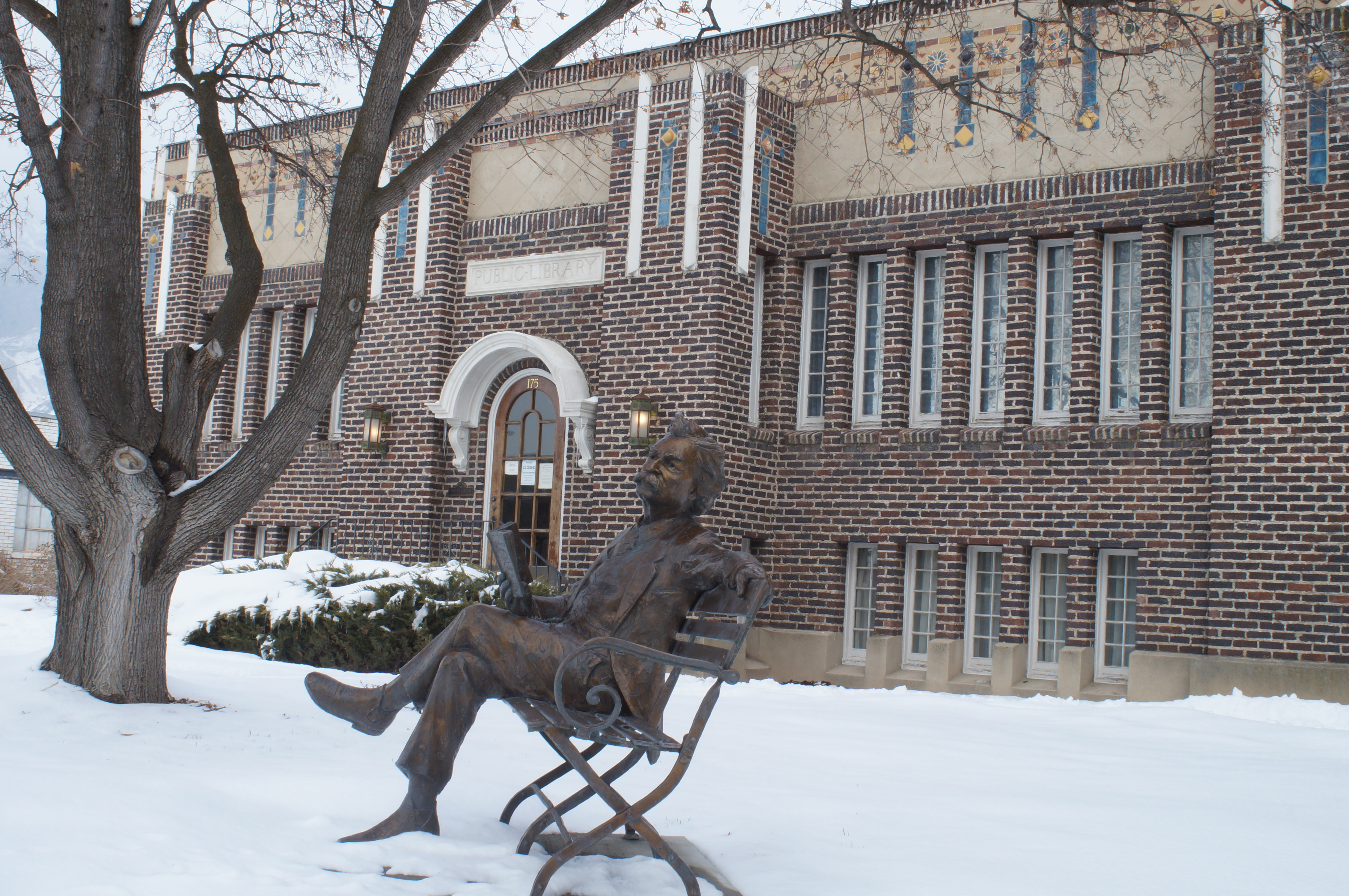 This building functioned as the Springville, Utah public library from 1922 to 1965, when the library was moved to a newer building. The original building, now listed in the U.S. National Register of Historic Places, houses a pioneer relic museum. A sculpture of Mark Twain reading a book adorns the lawn.